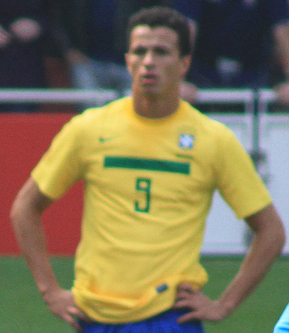 Neymar on the deck 1